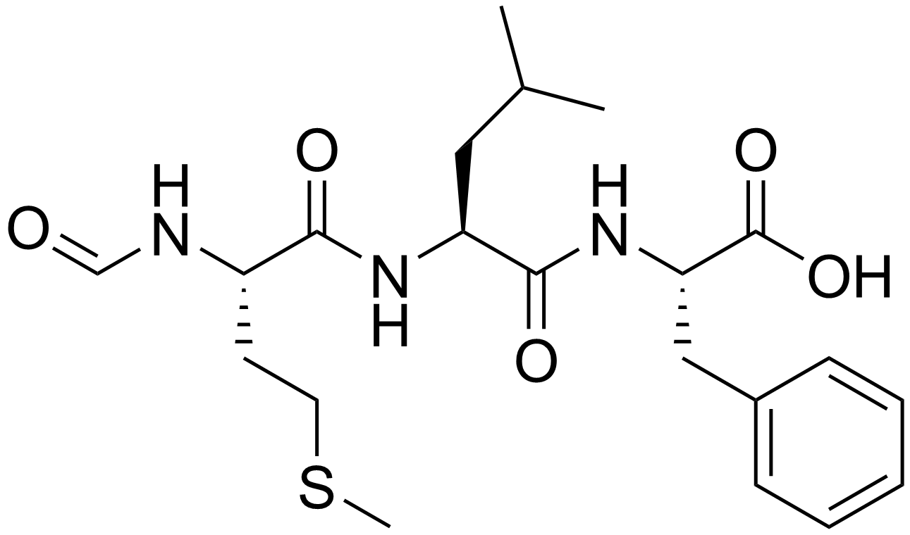 chemical structure of chemotactic peptide ( fMLF; N-Formyl-Met-Leu-Phe; N-Formyl-L-methionyl-L-leucyl-L-phenylalanine)